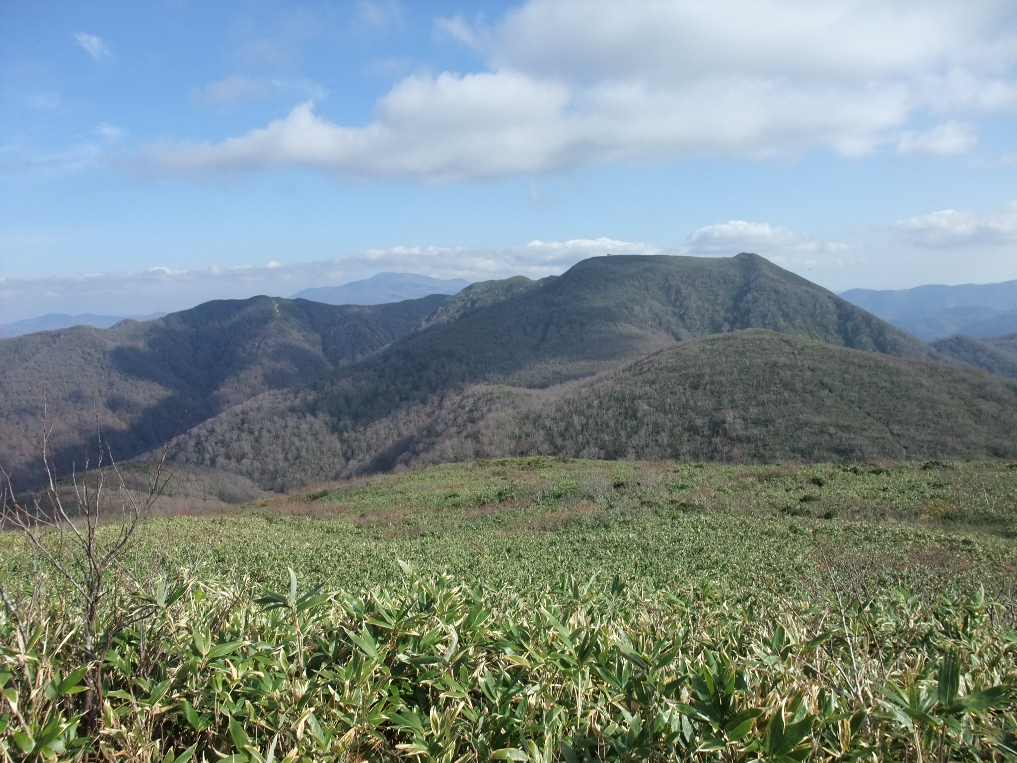 Mount Takamatsu (Takamatsudake) in Akita, Japan, as seen from Mount Yamabushi